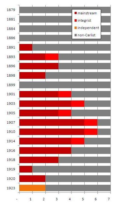 graph showing number of Carlist deputies elected from Navarre to Cortes Generales during the Restauration period